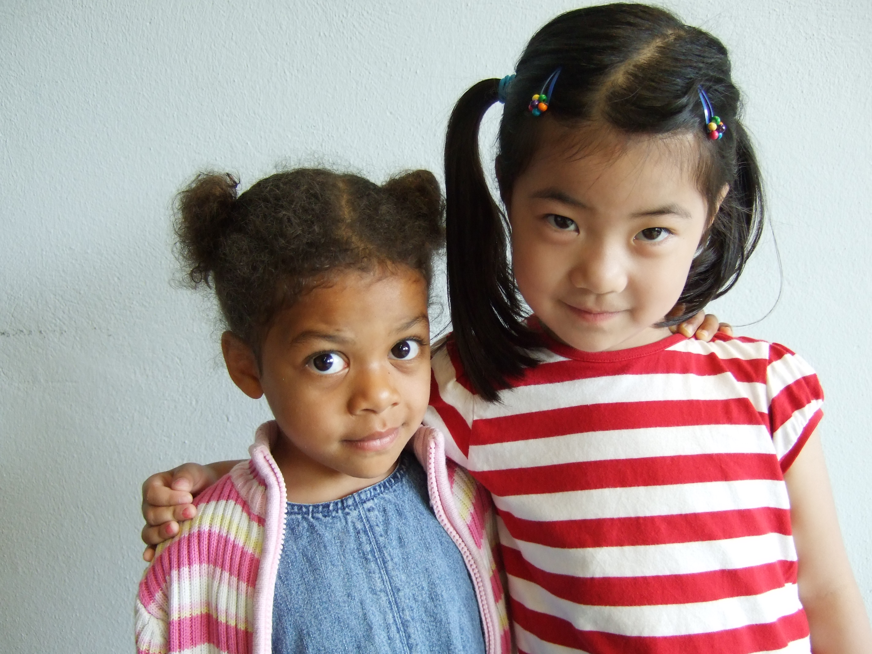 Children from Africa and China: Representants for stronger economical and cultural ties between both countries / continents